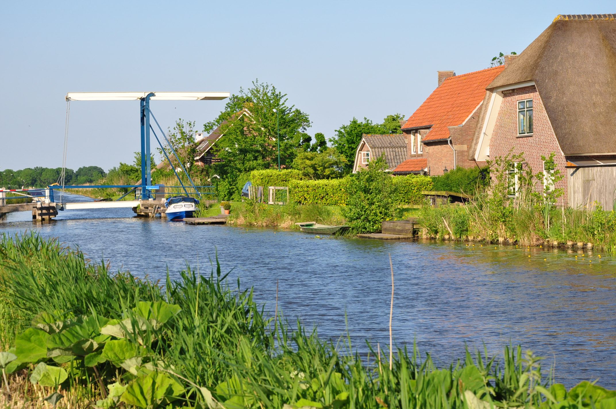 Farms along the Geer canal in the hamlet Spengen (municipality Stichtse Vecht, province Utrecht, Netherlands).